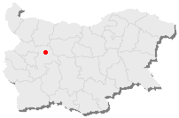 Map of Bulgaria, the red point is the position of Pravets.